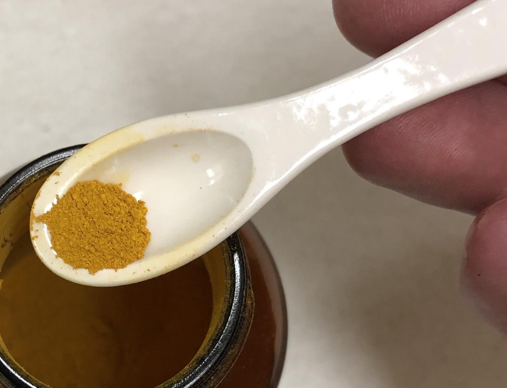 Alizarin Red S powder, also known as C.I. Mordant Red 3, Alizarin Carmine, and C.I 58005